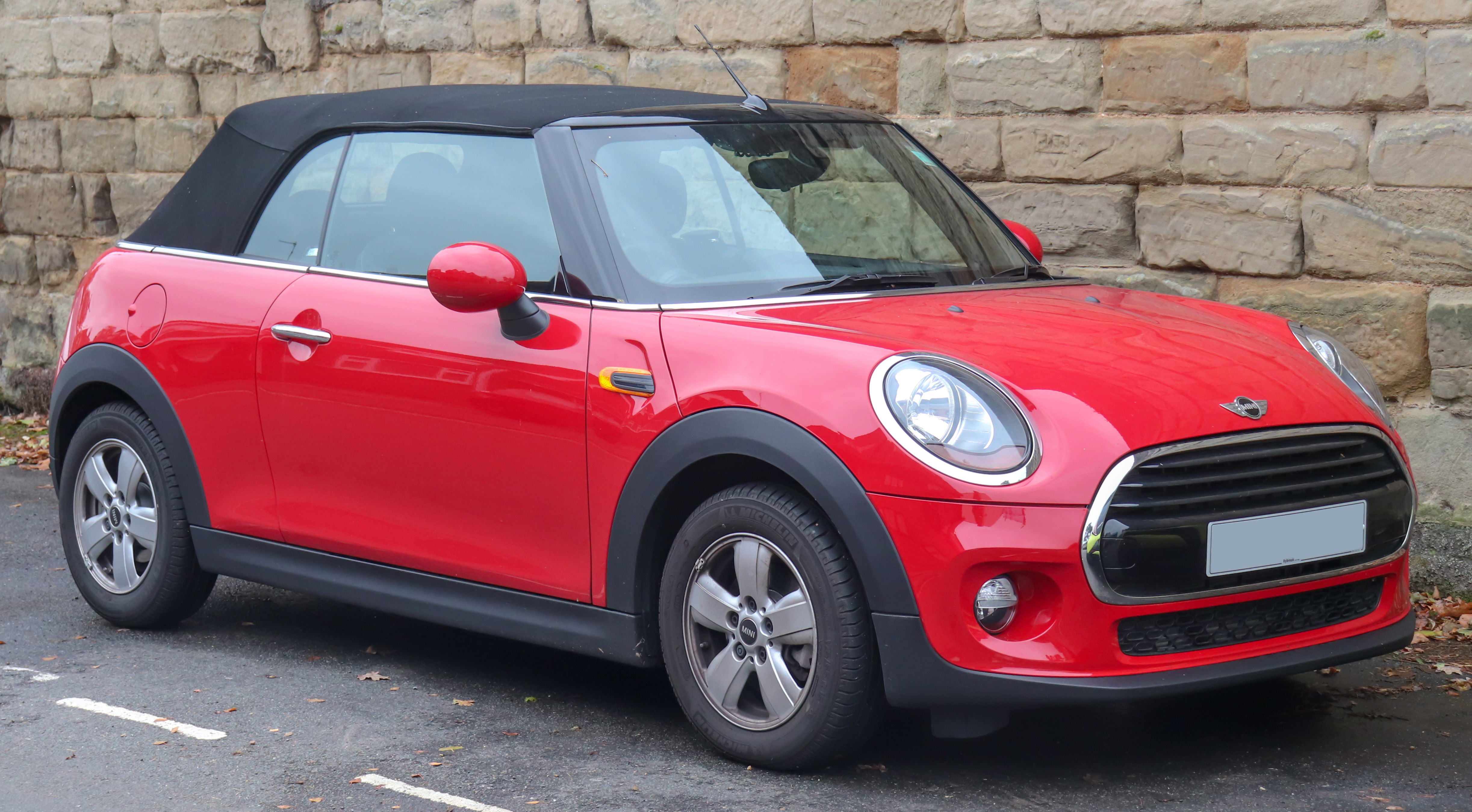 2018 Mini Cooper Convertible 1.5 Front Taken in Warwick